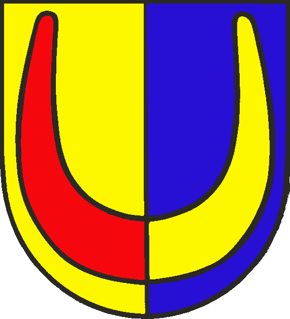 Coat of arms of the municipality Langenhorn in Schleswig-Holstein, Germany.